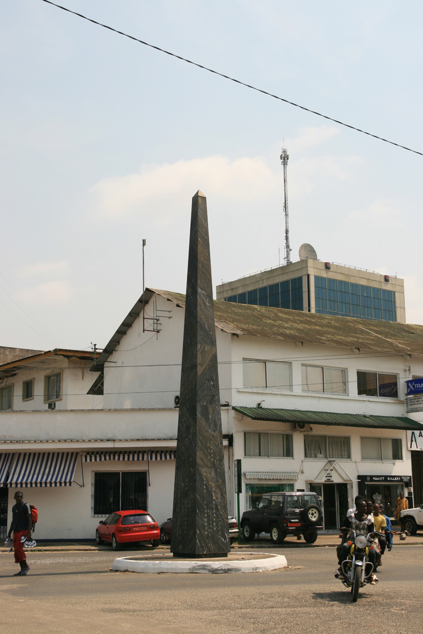 SUD Salon Urbain de Douala 2007. Triennial festival promoted by doual'art. Photo by Sandrine Dole.